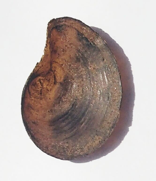 The operculum of Pomacea freshwater snail. Photographed in São Paulo state, Brazil.